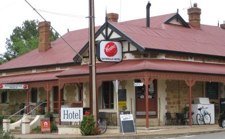 Watervale Hotel, located on Main North Road, Watervale, in the Clare Valley, South Australia